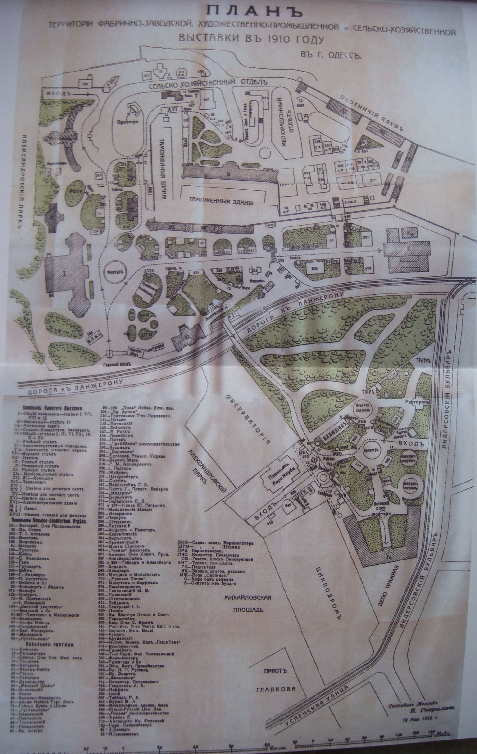 General map of Odessa Art & Industry xposition. 1910